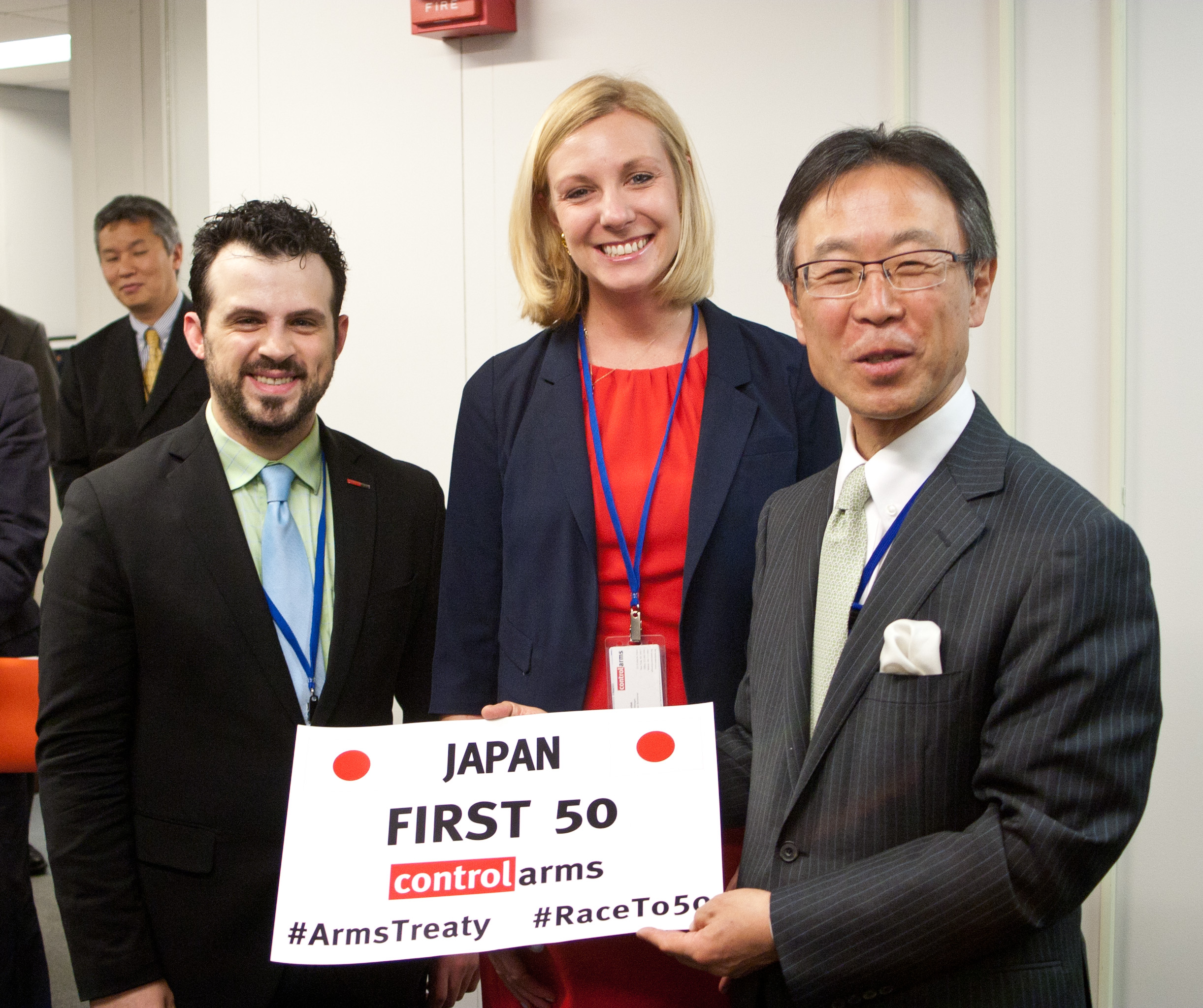 Ambassador Motohide Yoshikawa meets with civil society after depositing Japan's instrument of ATT ratification.